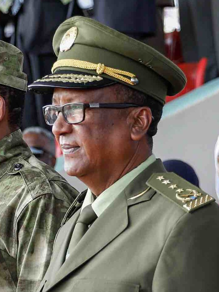 PM Abiy Ahmed with military commanders